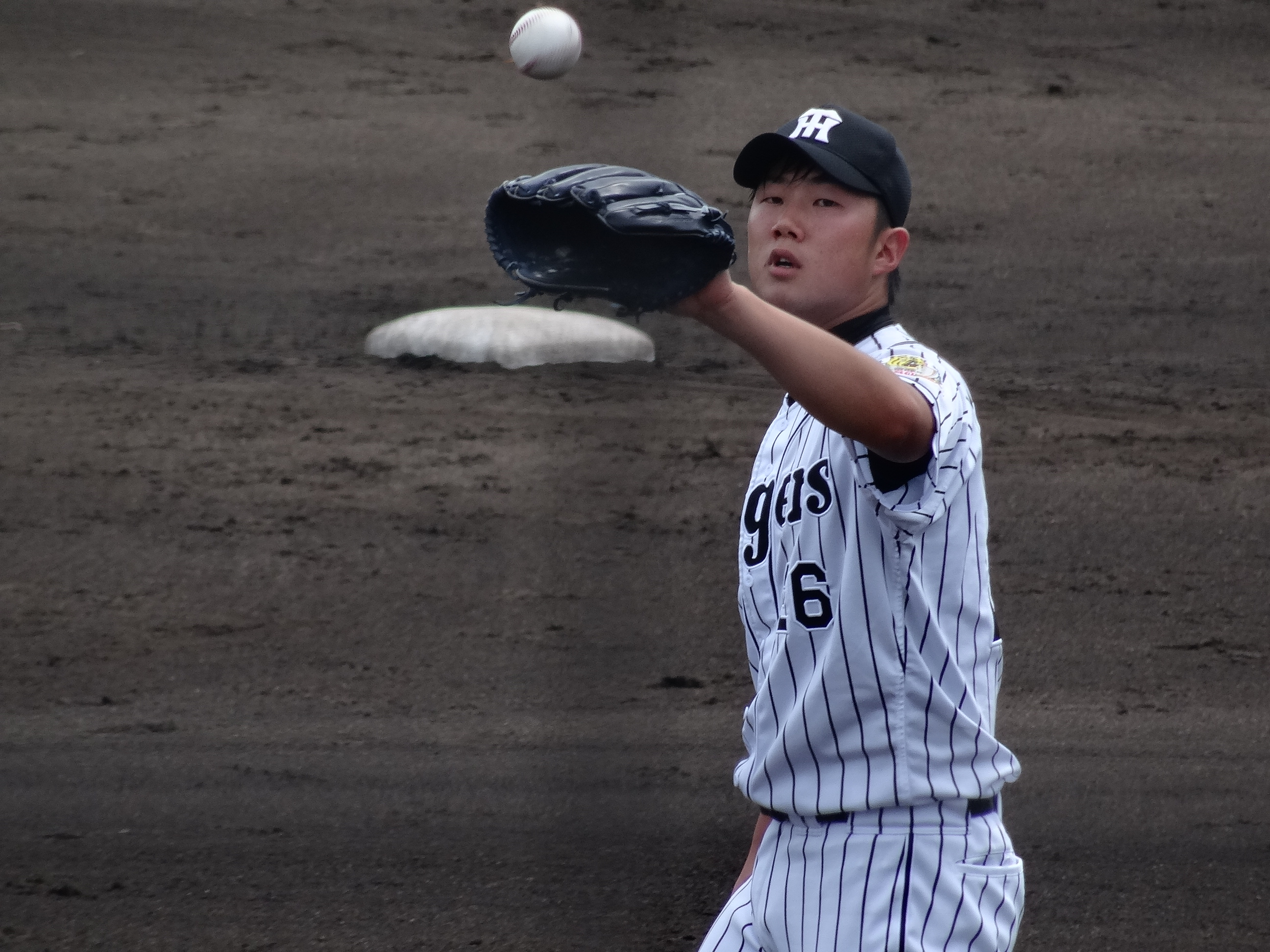 Hiroaki Saiuchi, pitcher of the Hanshin Tigers, at Hanshin Naruohama Baseball Ground.